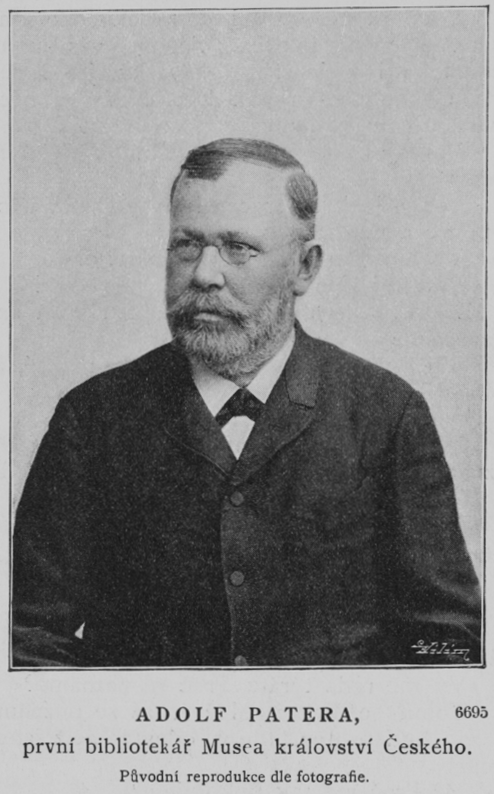 Photograph of Adolf Patera (1836 – 1912), Czech historian and philologist.